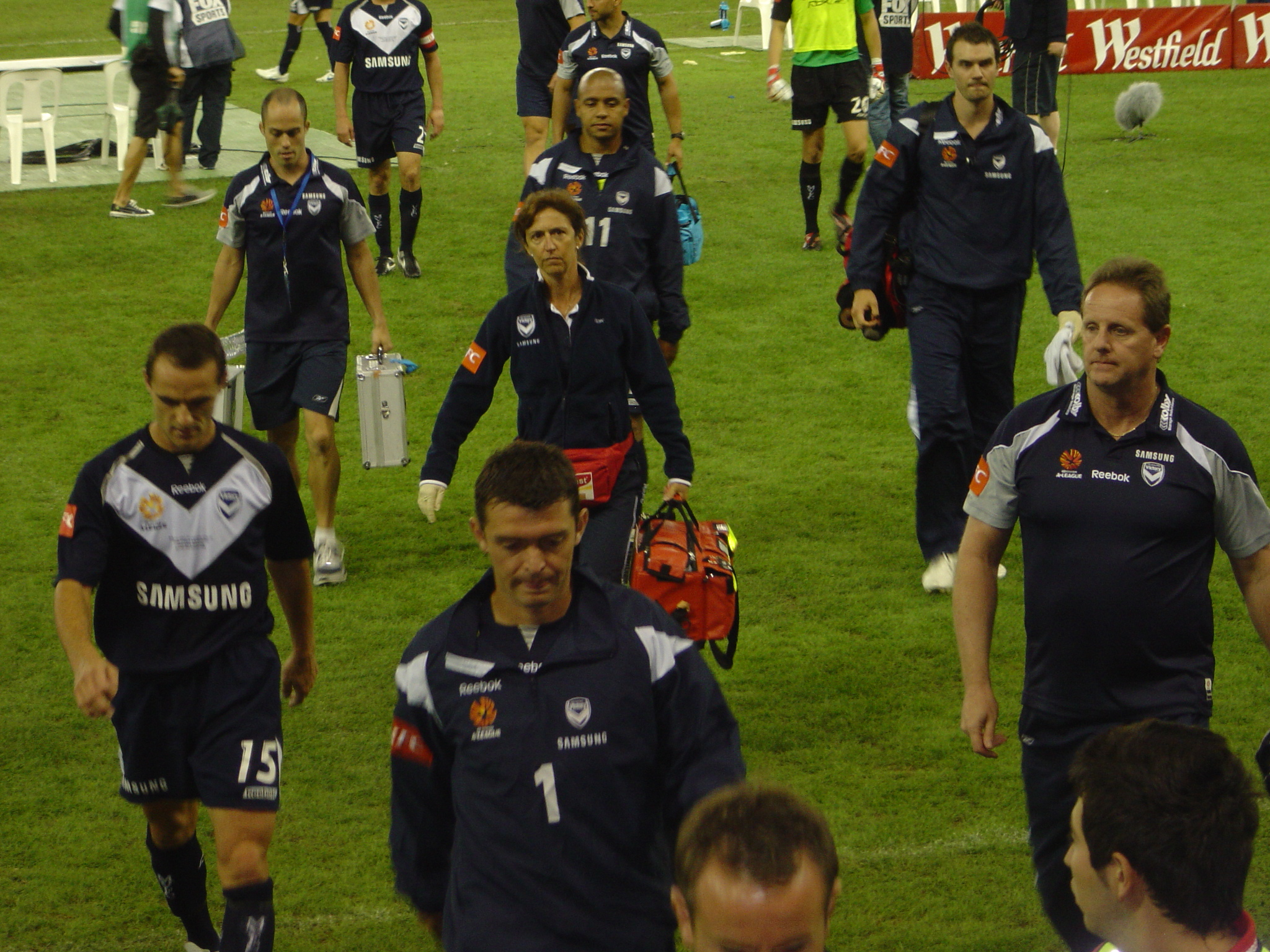 Melbourne Victory V Adelaide United 28 Feb 2009.